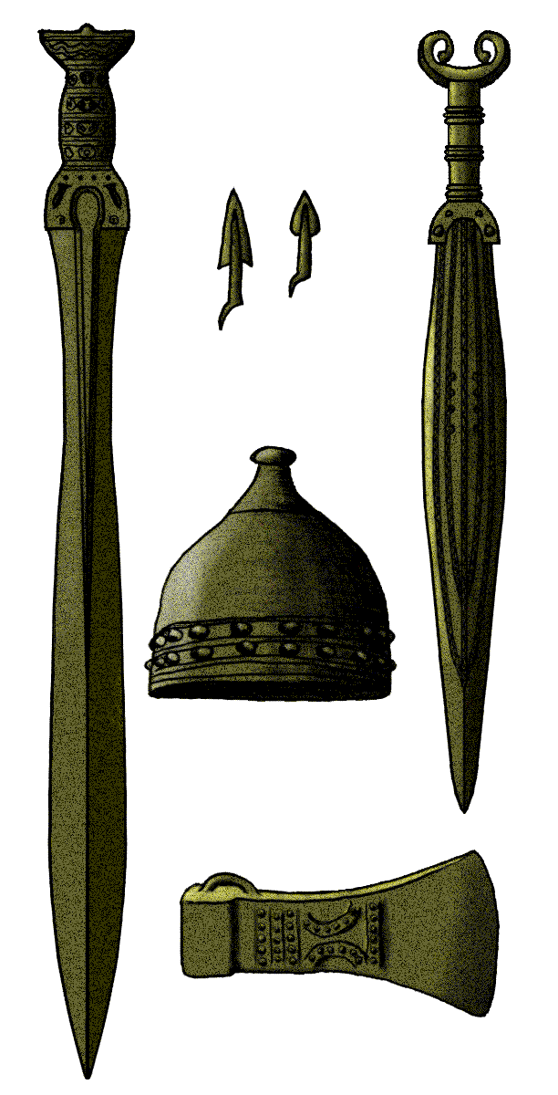 Typical bronze weapons from the Urnfield culture in the Final Bronze Ages of Center Europe